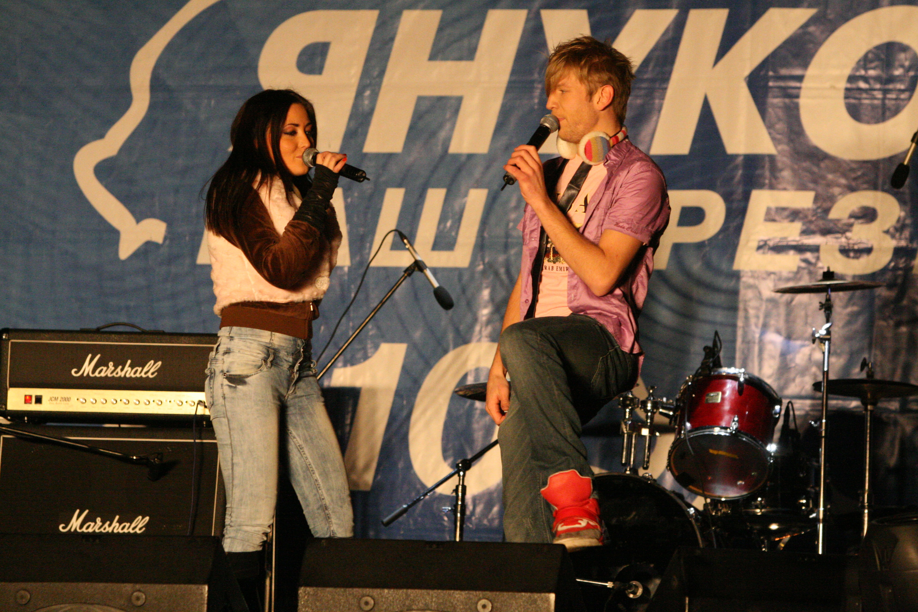 Ukrainian pop group “Para normalnykh” (2Normal) «Пара нормальных» play at Yanukovic for President rally in Dnipropetrovsk, Karla Marksa Prospect.